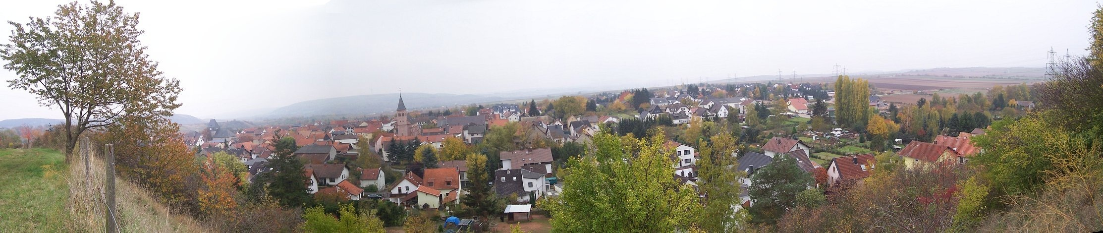 Roxheim in the district of Bad Kreuznach, in Rhineland-Palatinate, Germany.